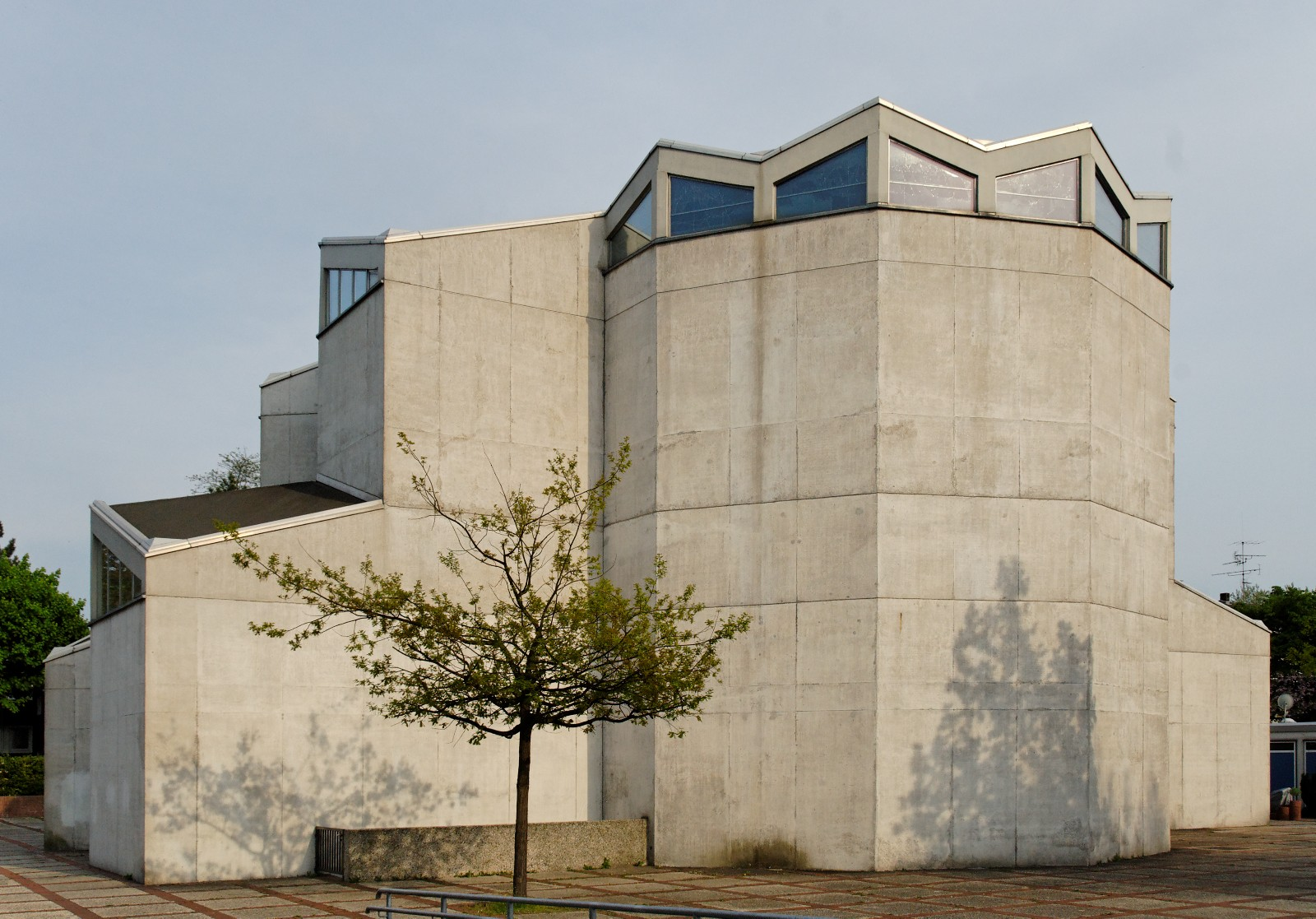 Saint Norbert in Düsseldorf-Garath, Germany